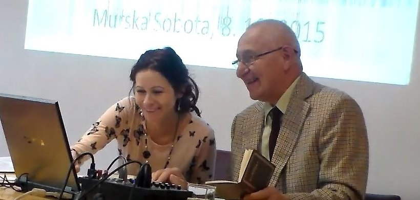 prof. dr. Alojzije Jembrih (b. 194=) Croatian linguist, historian, expert of the Kajkavian language (kajkavski) and Klaudija Sedar (b. 1980) Slovene linguists, latinist and expert of the Prekmurian language (prekmurščina) in Murska Sobota (2015)